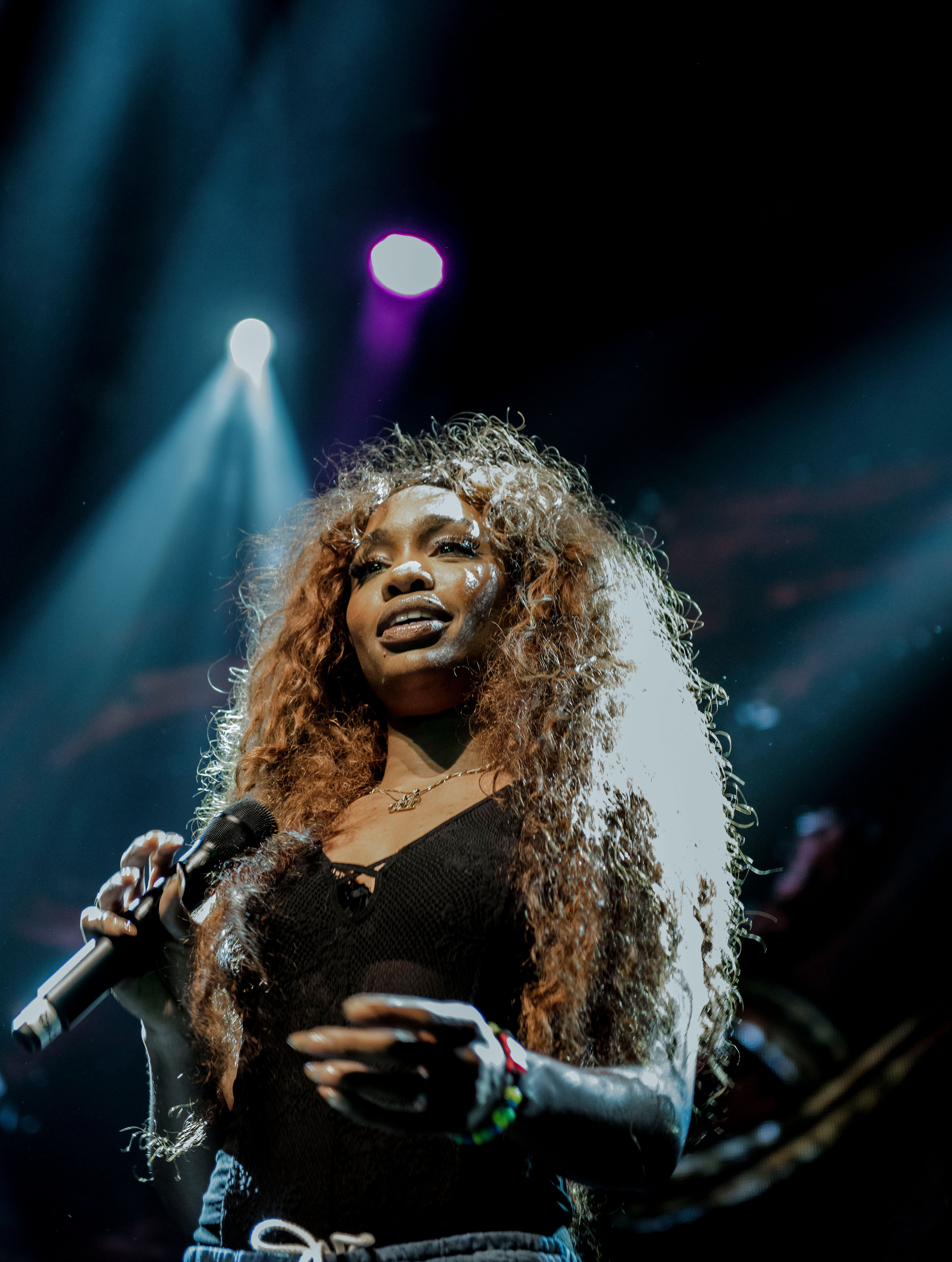 SZA in August 2017